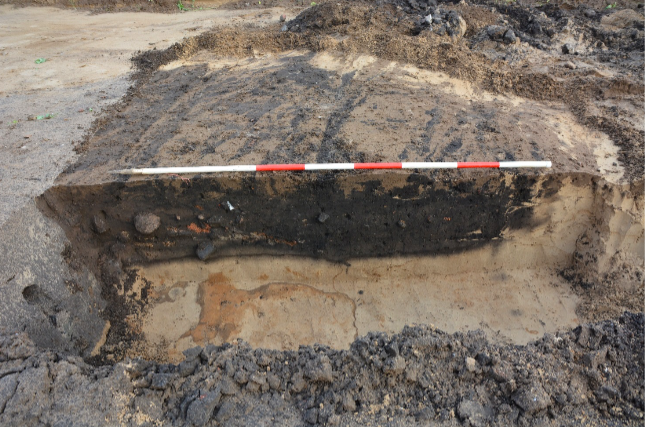 A picture I took of a pit house excavated at Endebjerg